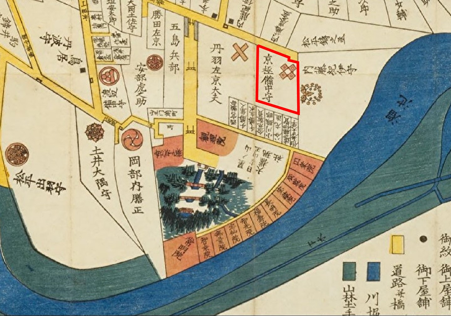 Residence of Mineyama-Kyogoku clan at Edo